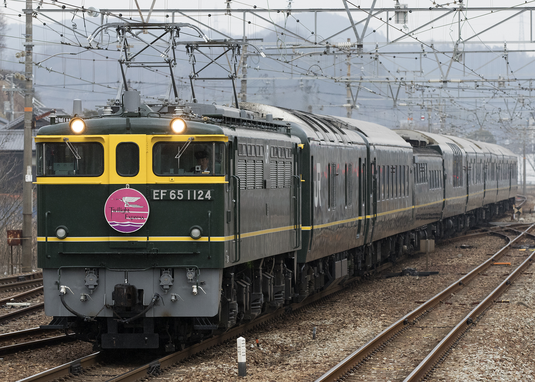 JR West Class EF65 electric locomotive EF65 1124 hauling the the Twilight Express rake on a special cruise service